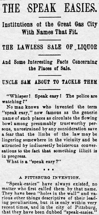 The Pittsburg Dispatch, June 30, 1889 (from Library of Congress)